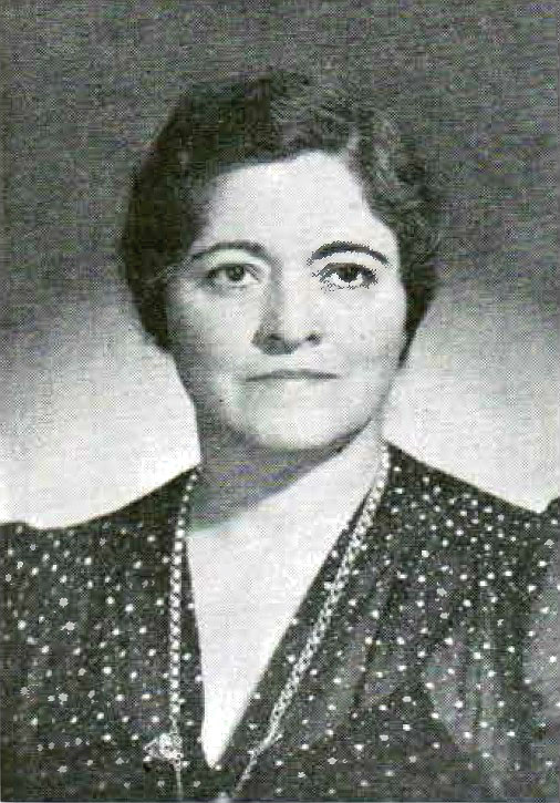 Photo of Frances Benedict Stewart from the November 1950 issue of Bahá'í News. Photo is on page 7 of the issue. A check for renewal was done in periodicals for the year 1977. There were no listings for the title. Another check for renewals was done at . No renewals for the title were discovered but original registrations for later years of the magazine were found. There's no evidence of continuing copyright for this 1950 issue of the magazine.